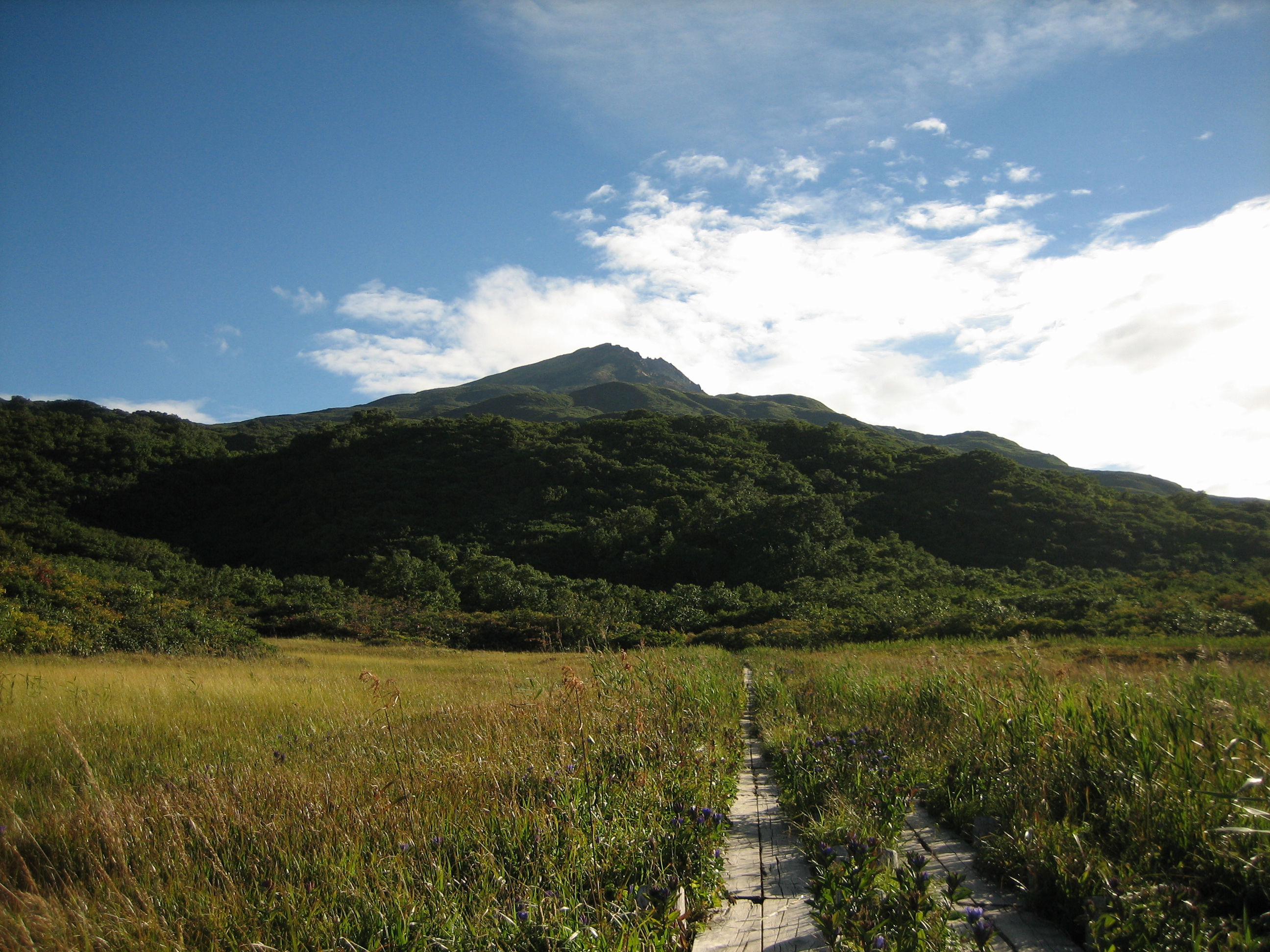 Mount Chokai's summit seen from the NNE. Shot at Ryugahara wetland.